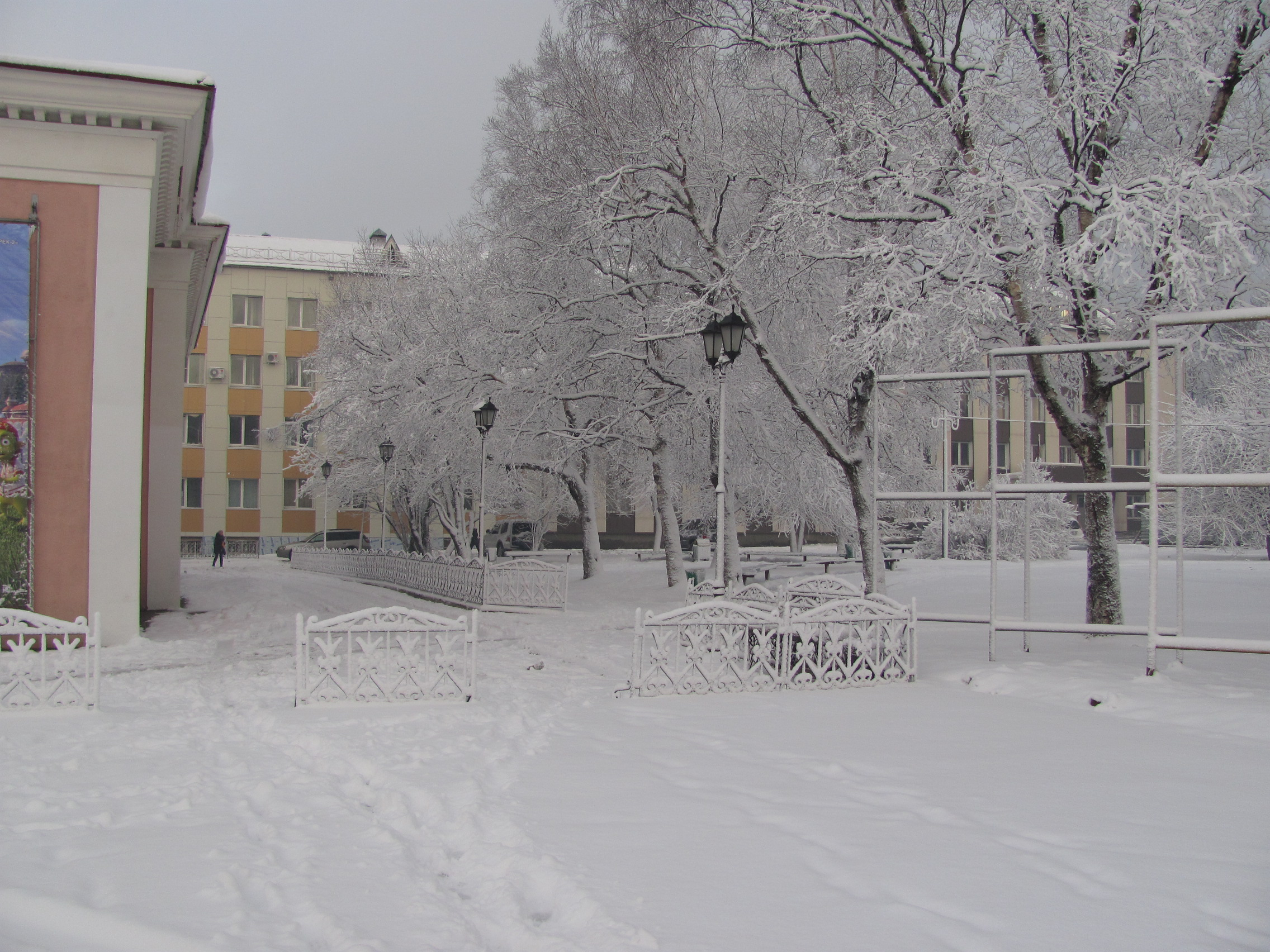 Square Near movie theater "Komsomolets" in Yuzhno-Sakhalinsk city